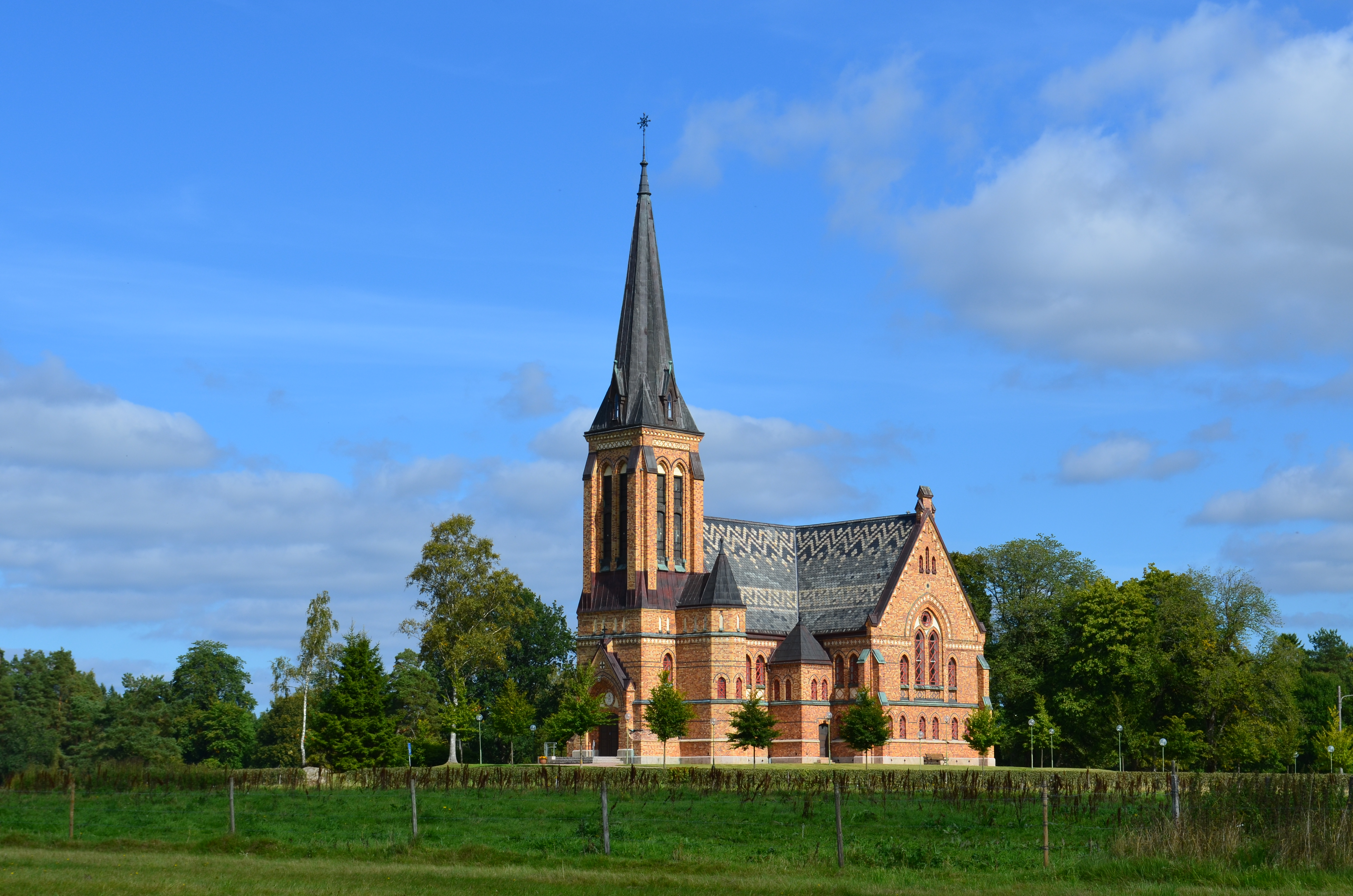 Seglora new church seen from the south